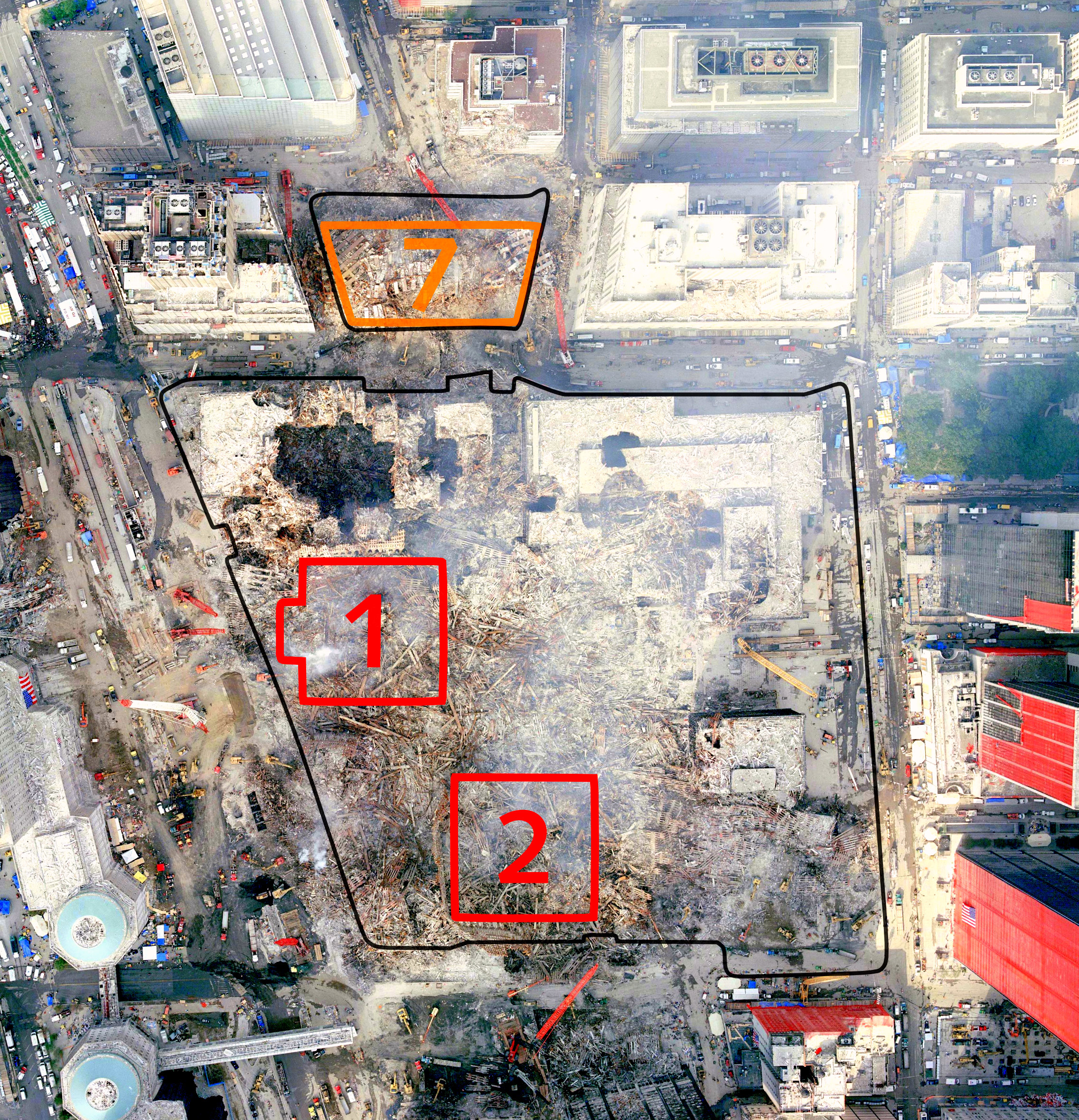 Aerial photo of Ground Zero and 7 WTC, with contours of the buildings